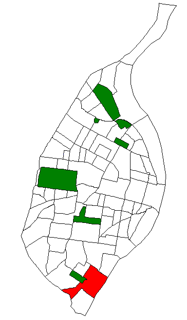 Map of St. Louis Neighborhood #01 (Carondelet)